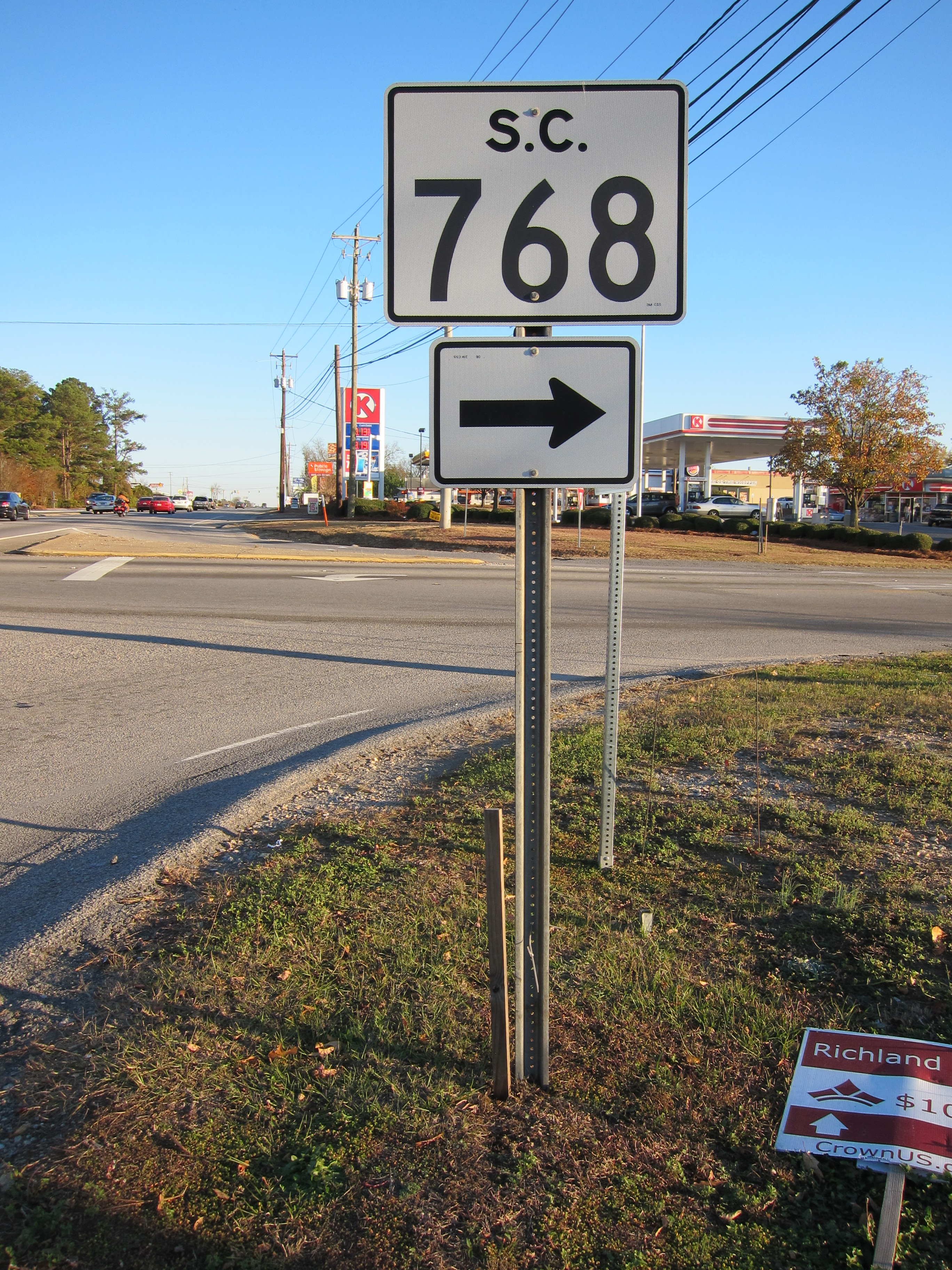 SC 768 directional sign along Garners Ferry Road, in Columbia, South Carolina.